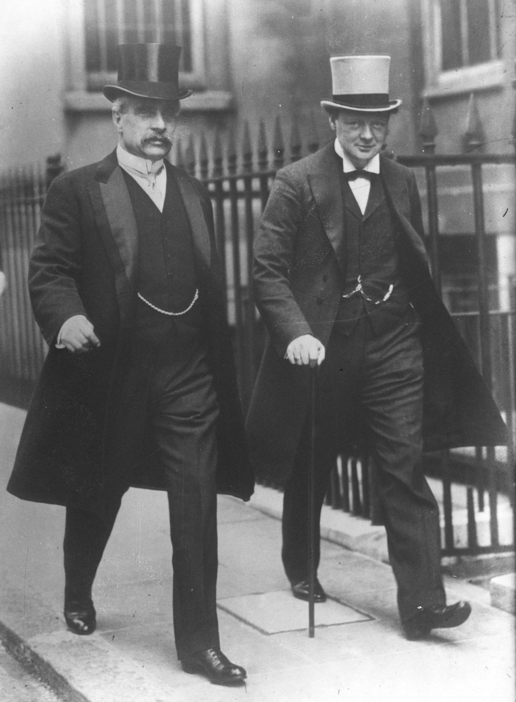 Canadian Prime Minister Robert Borden (1854-1937) and Winston Churchill (then First Lord of the Admiralty) in 1912. Location unknown.